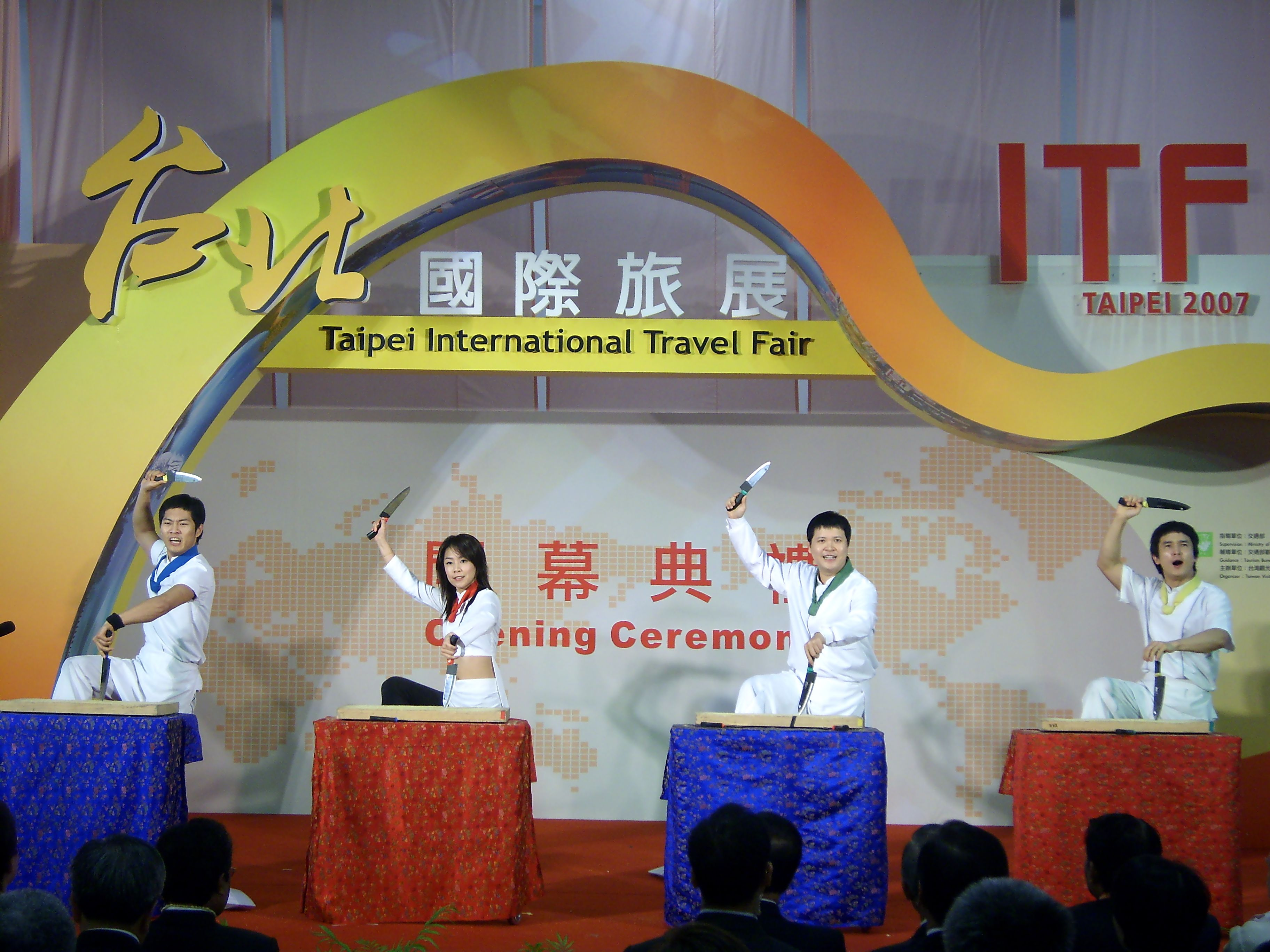 2007 Taipei International Travel Fair: A special performance NANTA from Korea at Opening Ceremony.